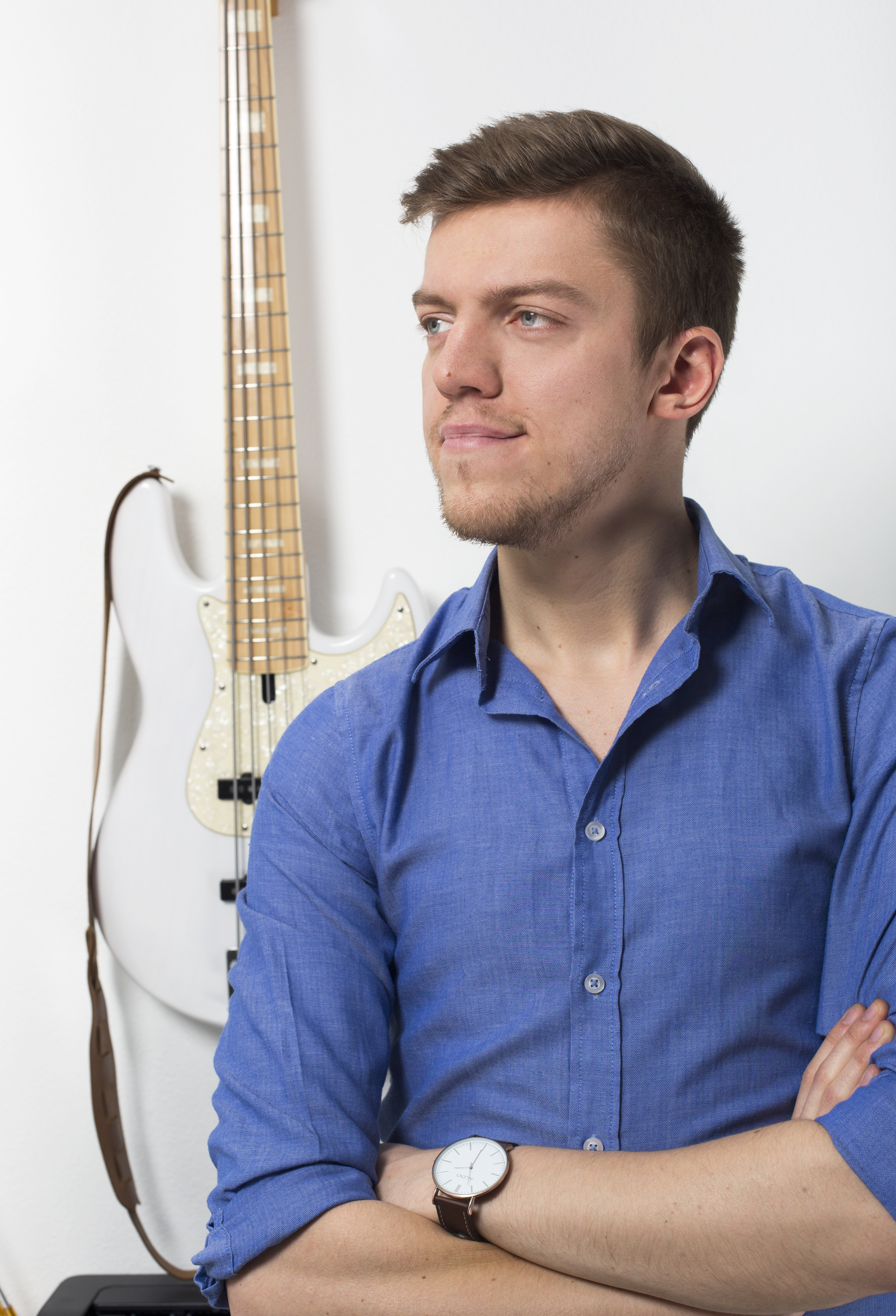 Janno Trump